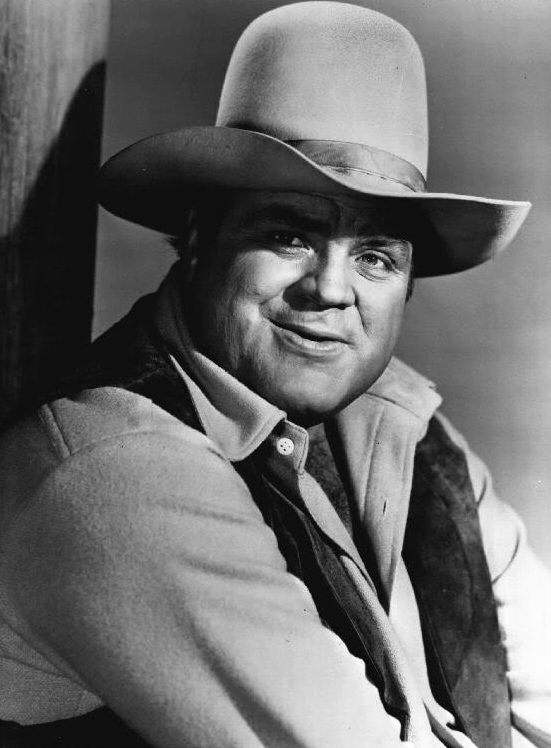 publicity photo of Dan Blocker